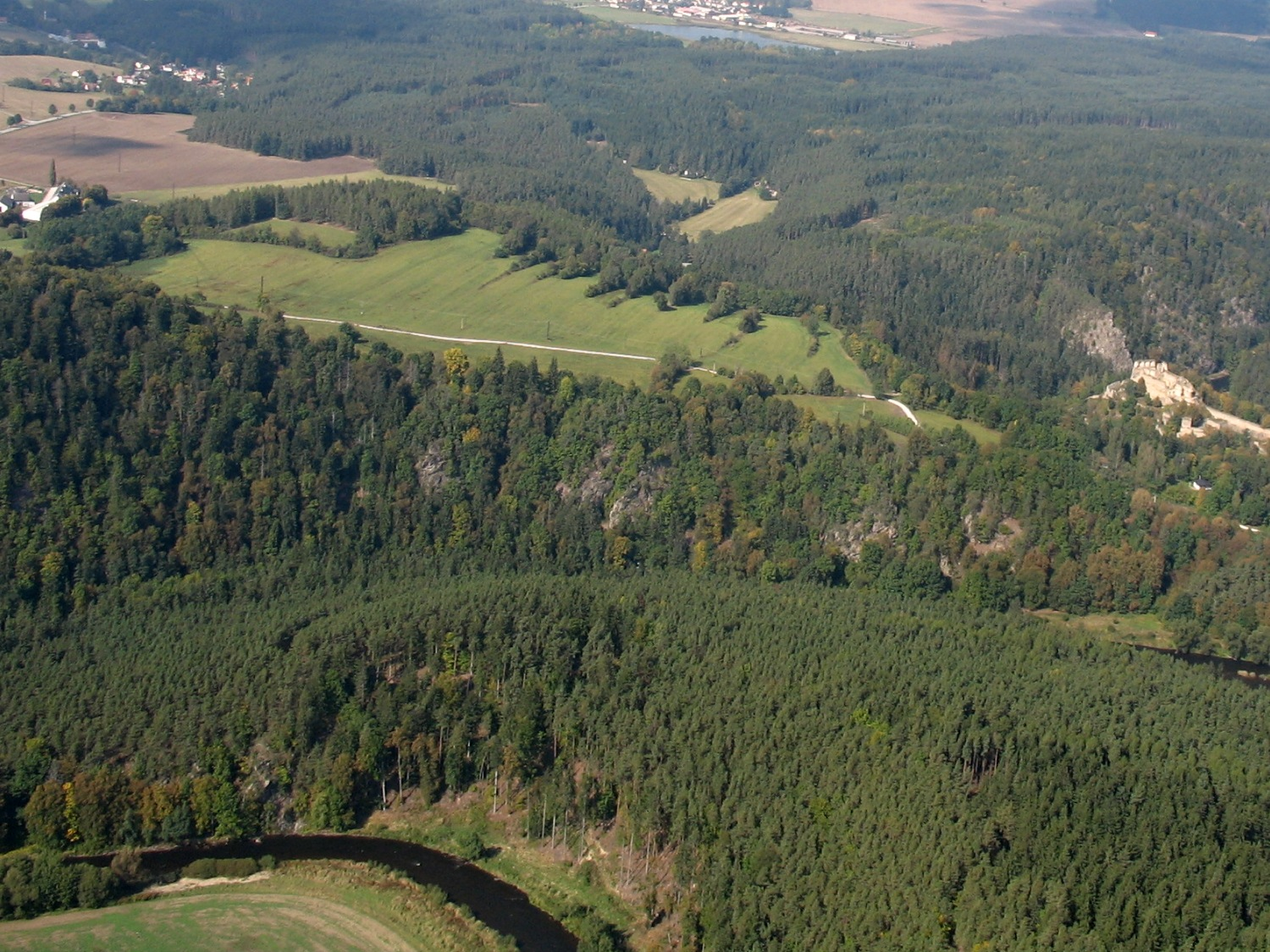 Oppidum Třísov in South Bohemia